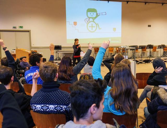 School project with the Sophie Scholl Secondary School in Berlin, Germany